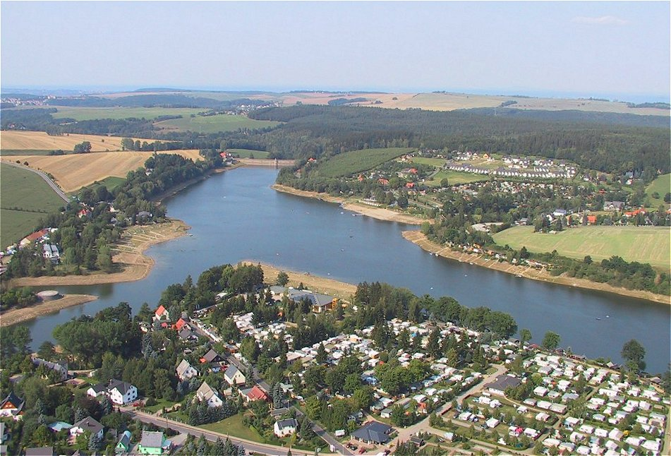 artificial lake Malta, near Dresden